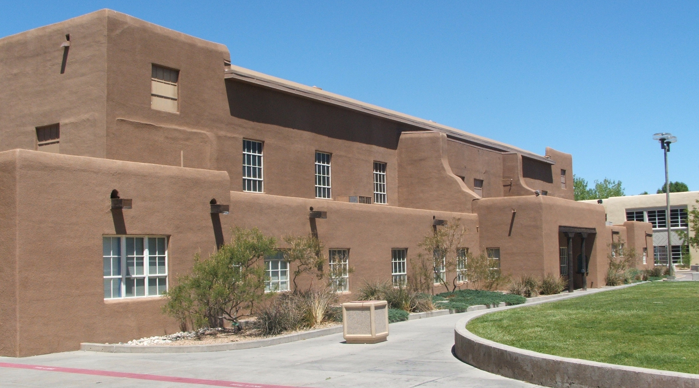 Carlisle Gym at UNM.